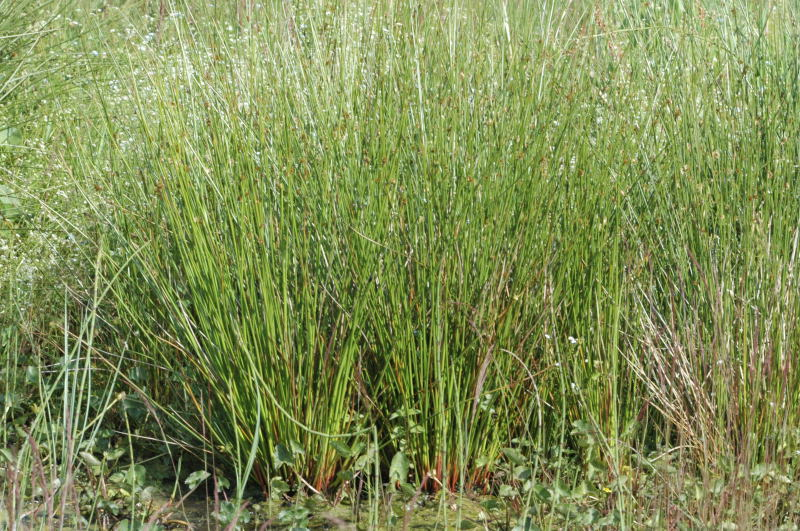 Juncus conglomeratus in Commanster, Belgian High Ardennes.